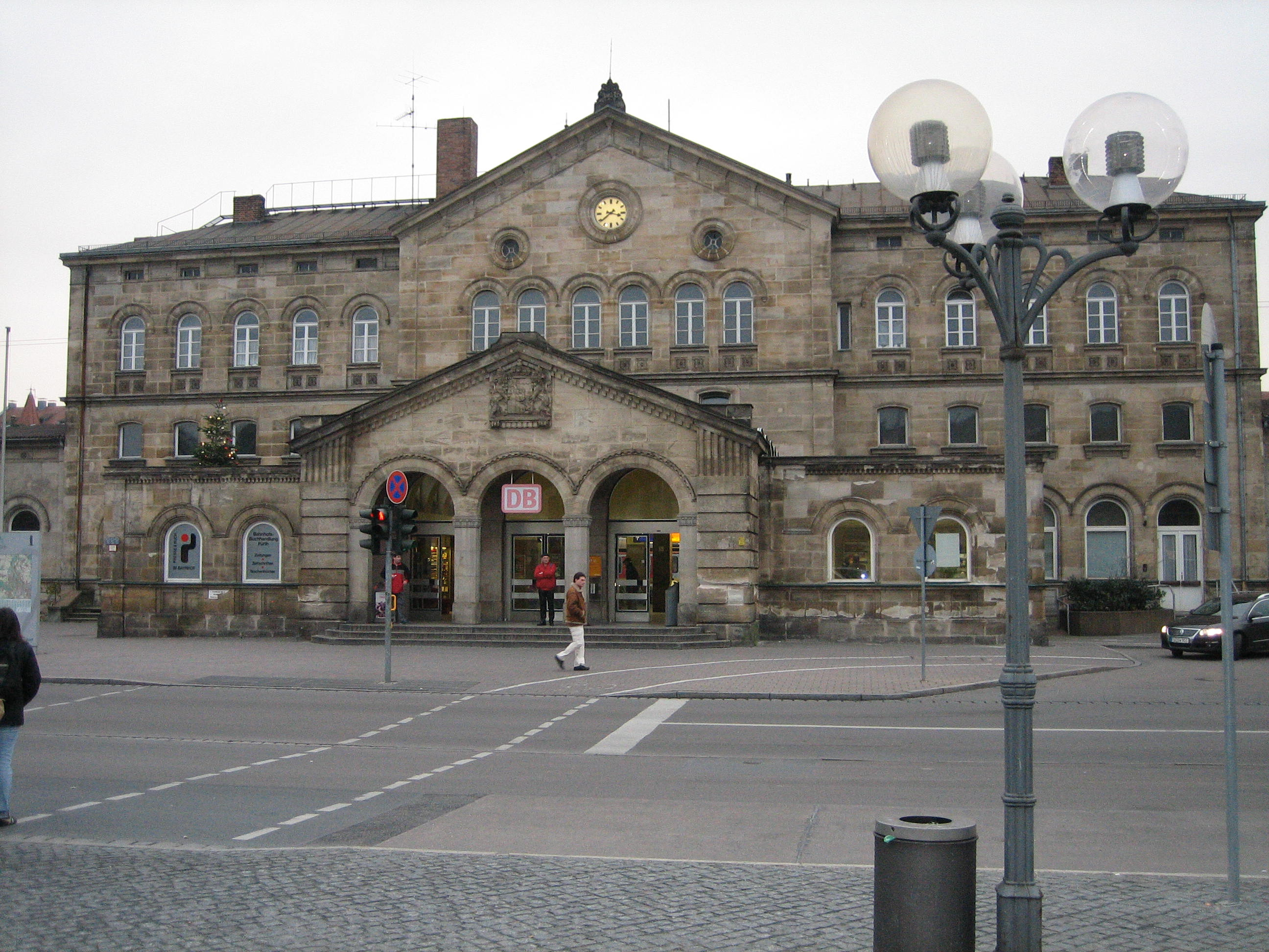 Fürth Hauptbahnhof from Bahnhofsplatz